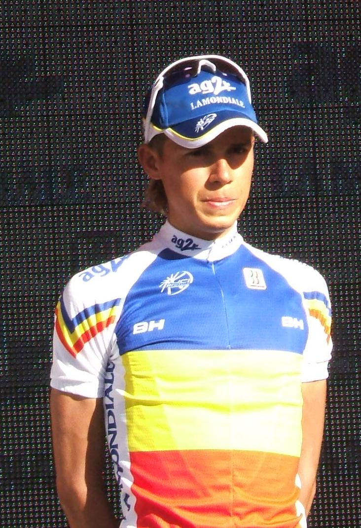 Named cyclist at the en:2009 Tour Down Under team presentation